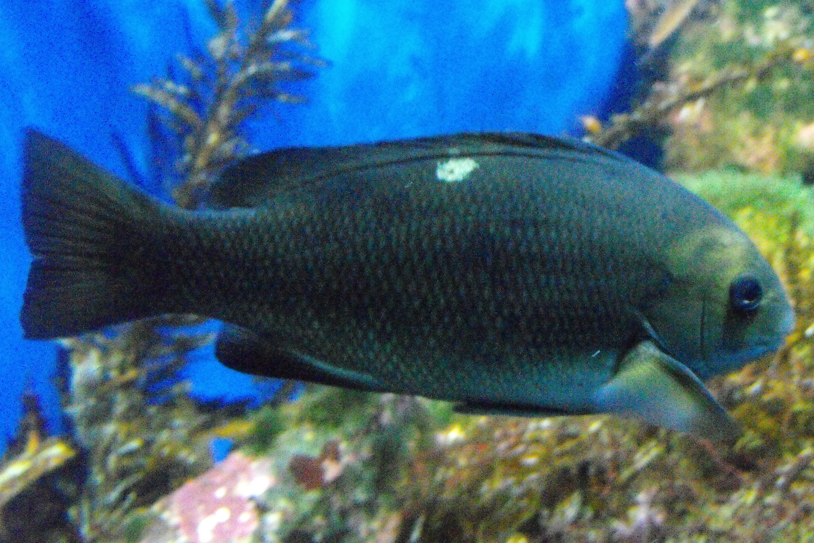 Girella nigricans at the Birch Aquarium in San Diego, California, USA.